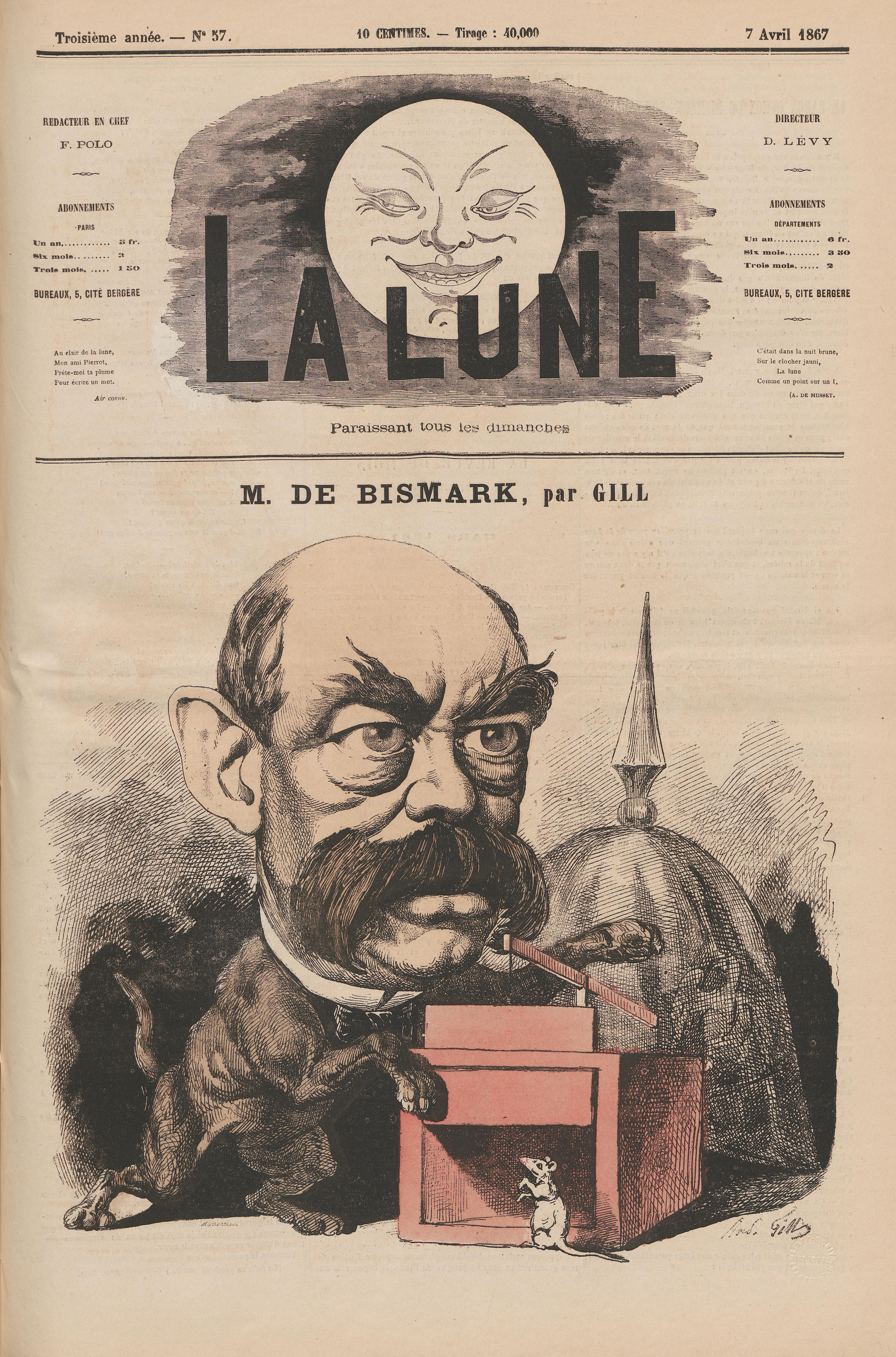 Cartoon of Bismark by André Gill